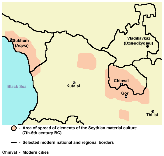 Area of spread of elements of the Scythian material culture (7th-6th century BC).